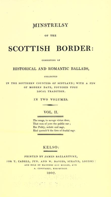 The title-page of volume 2 of the first edition of Minstrelsy of the Scottish Border by Sir Walter Scott